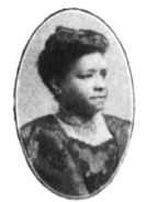 Frazelia Campbell, teacher of Classics and modern languages